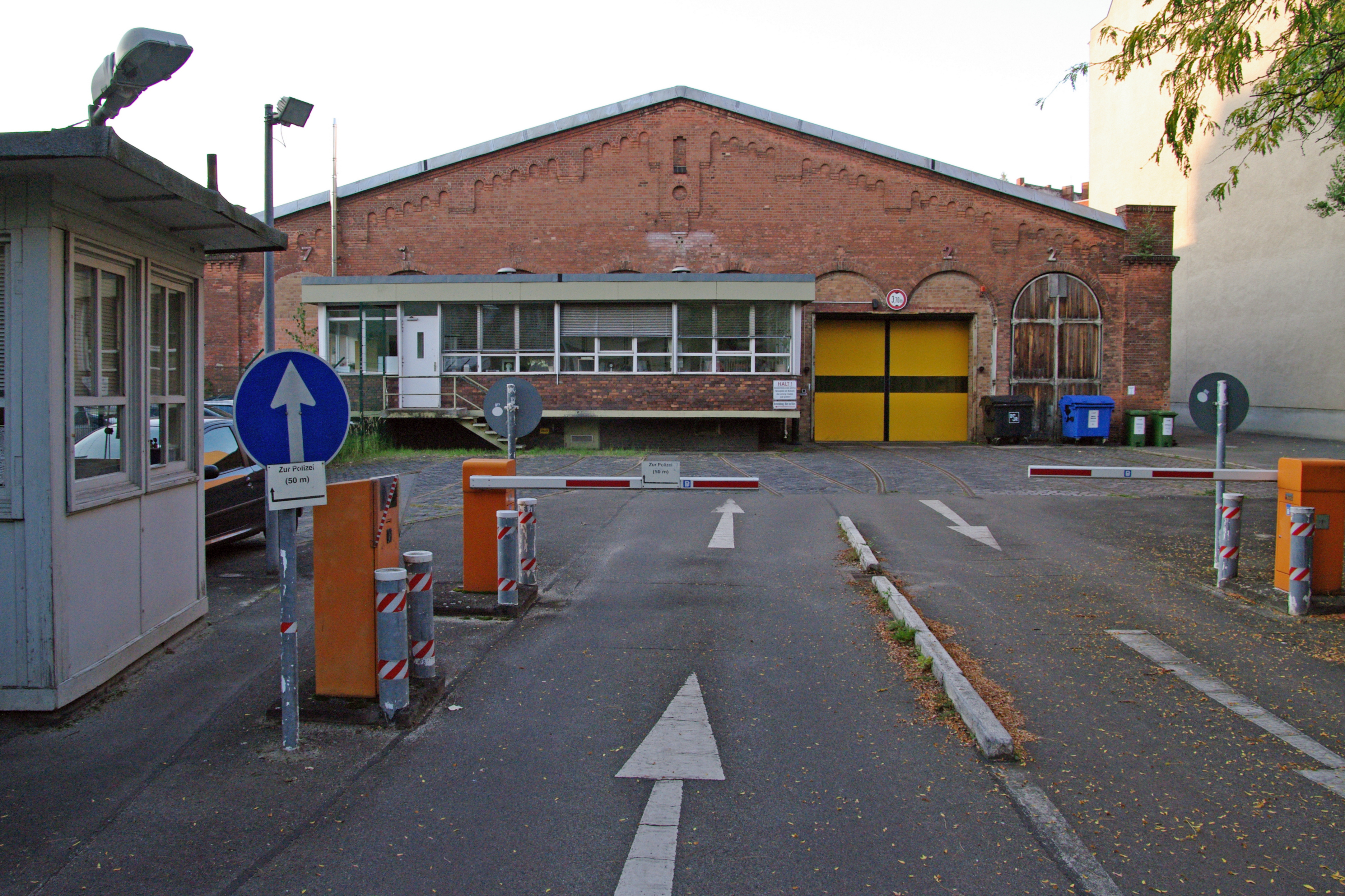 Former tramway depot in Berlin-Schöneberg. Now, the vehicles of the government of the City of Berlin are in this part of the building.